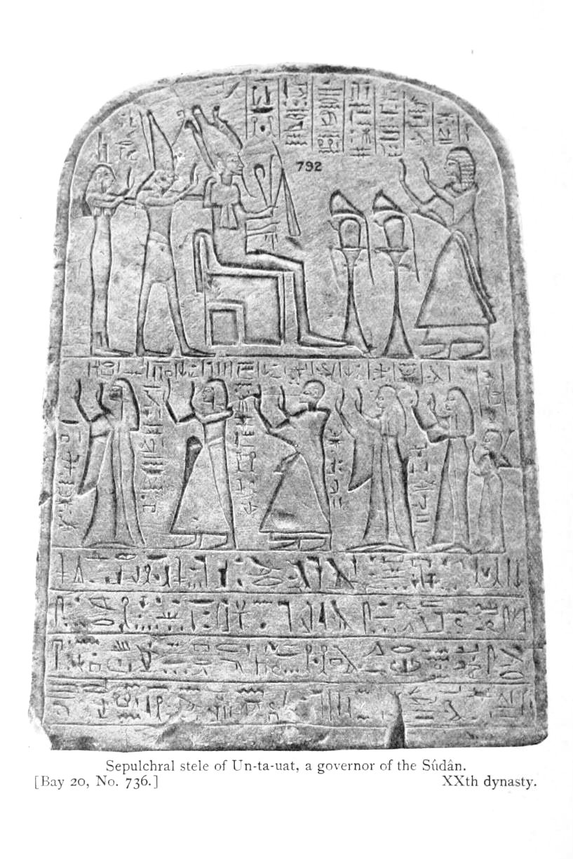 Funerary stele for the Viceroy of Kush Wentawat, here depicted with some relatives. Reign of Ramesses IX, 20th Dynasty, New Kingdom. British Museum EA 792.